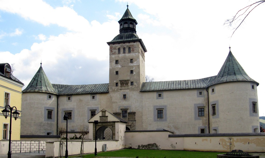 Bytča Castle